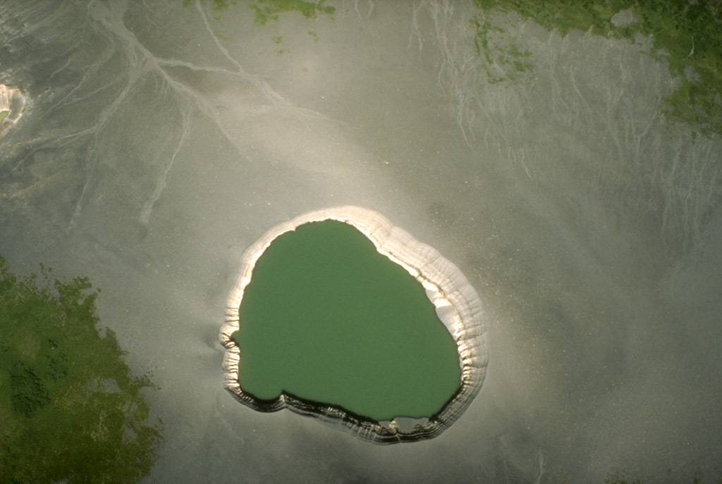 "Near-vertical view of the east Ukinrek Maar crater, 300 m (980 ft) across, that formed in 1977 during a 10-day phreatomagmatic eruption in the Becharof National Wildlife Refuge on the Alaska Peninsula. Part of smaller west Ukinrek Maar crater is visible at upper left. Photograph by D. Dewhurst, U.S. Fish and Wildlife Service, July 8, 1990. Image courtesy of the photographer. Please cite the photographer and the U.S. Fish and Wildlife Service when using this image."